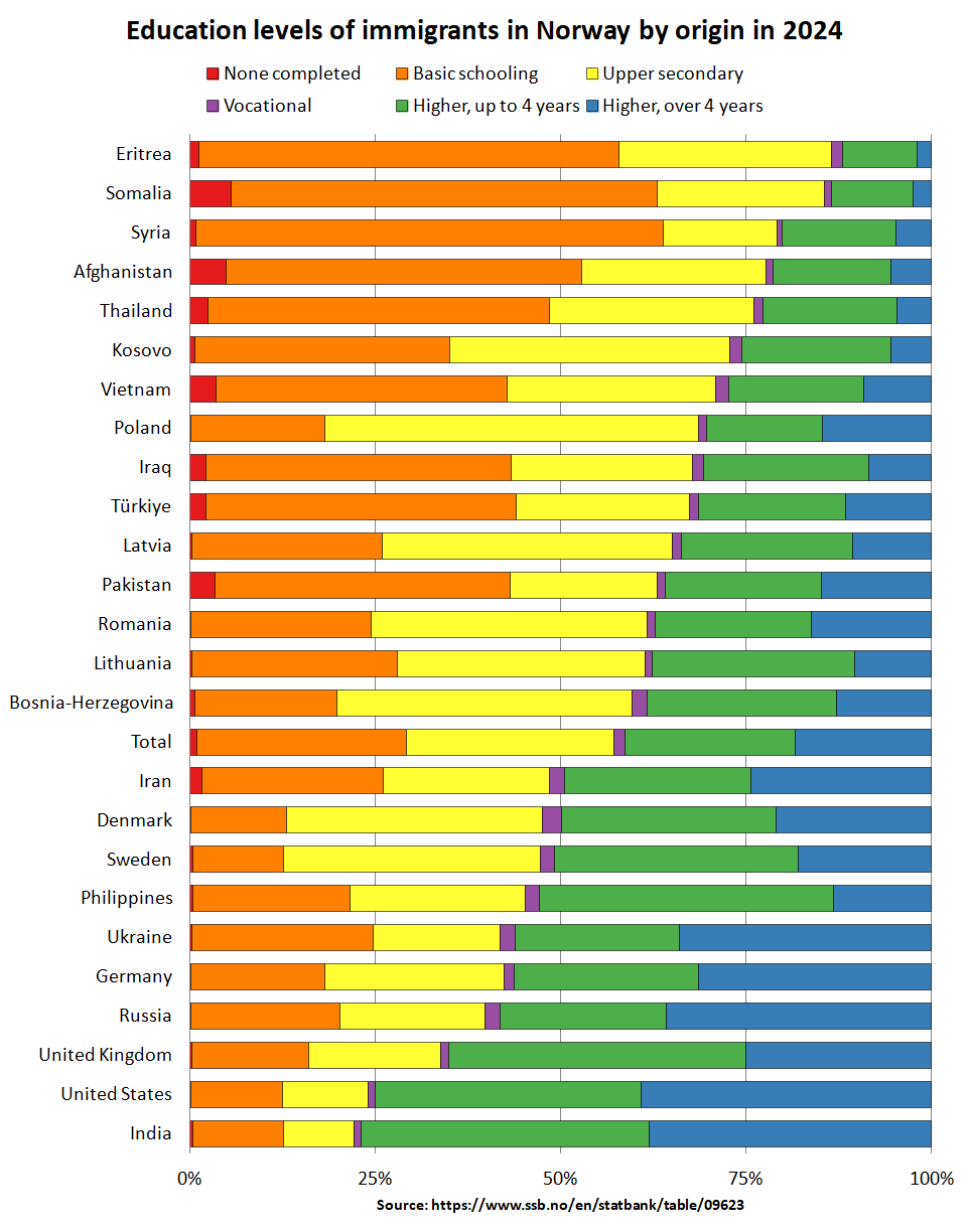 Educational attainment of immigrants in Norway by country of birth in 2018